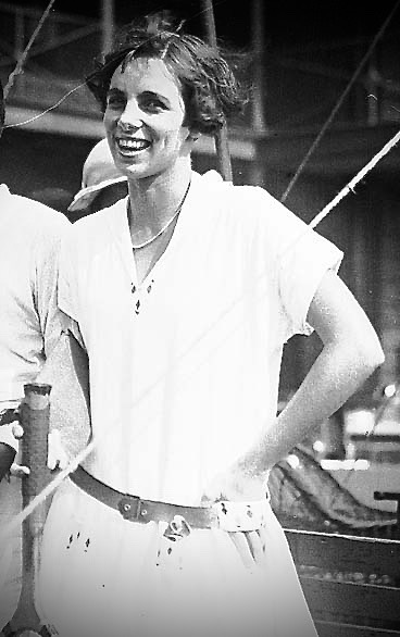 Members of the Imperial Japanese Naval Squadron visited Australia in January 1924 as part of a training cruise. The squadron consisted of the IWATE, ASAMA and YAKUMO. Nearly 2,500 men of which 300 were midshipmen spent time in Sydney, Melbourne, Hobart, Brisbane, Adelaide and Perth during their tour. An unidentified Japanese officer is shown here at Victoria Barracks in Paddington, Sydney with two women during a tennis party. The event was held on the morning of 26 January for the foreign visitors which included Admiral Saito. This photo is part of the Australian National Maritime Museum’s Samuel J. Hood Studio collection. Sam Hood (1872-1953) was a Sydney photographer with a passion for ships. His 60-year career spanned the romantic age of sail and two world wars. The photos in the collection were taken mainly in Sydney and Newcastle during the first half of the 20th century. The ANMM undertakes research and accepts public comments that enhance the information we hold about images in our collection. This record has been updated accordingly. Photographer: Samuel J. Hood Studio Collection Object no. 00034696 Check out our blog on naval visits to Sydney bit.ly/MTtR5H